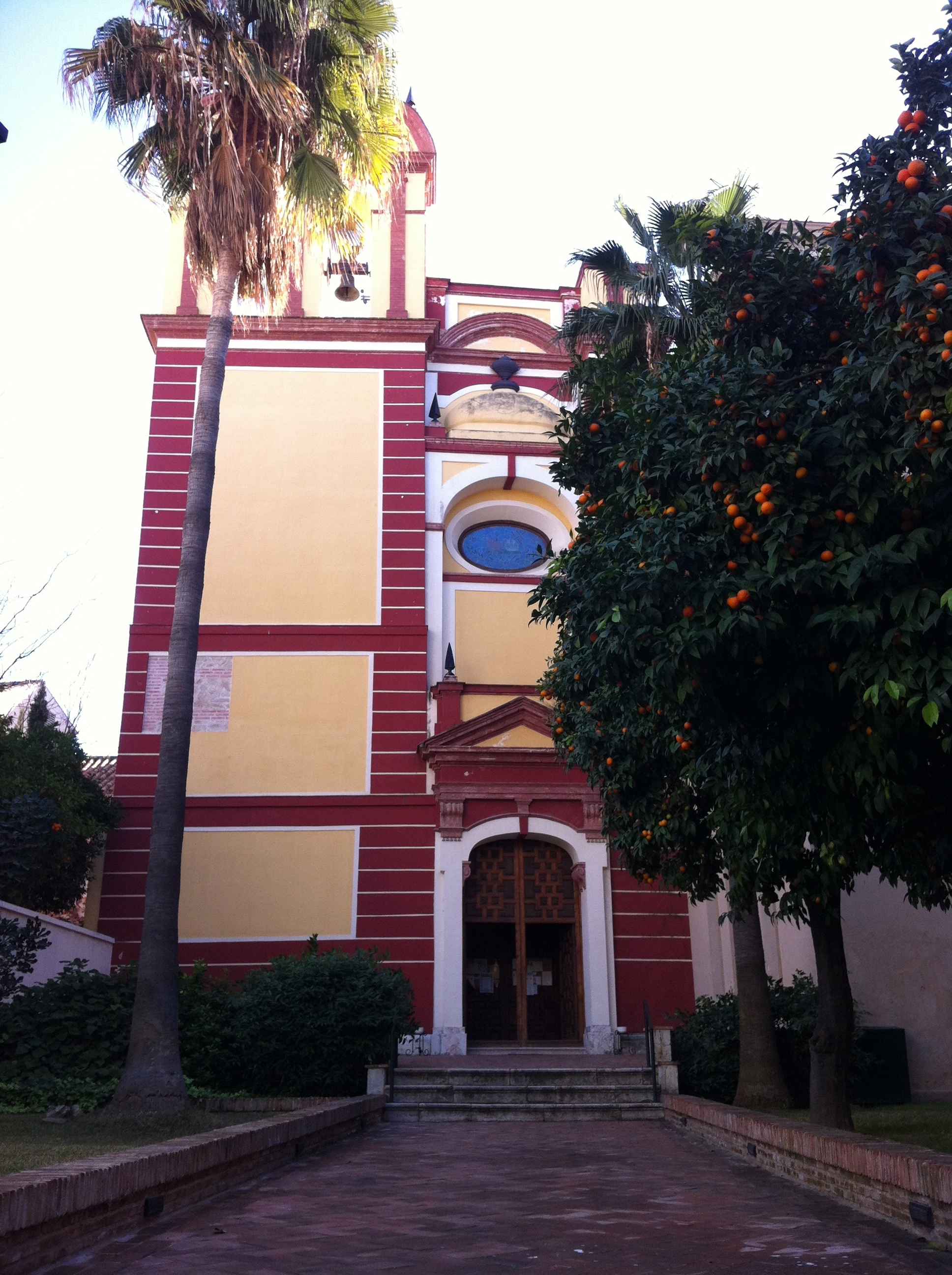 San Agustín Abbey, Málaga, Spain.